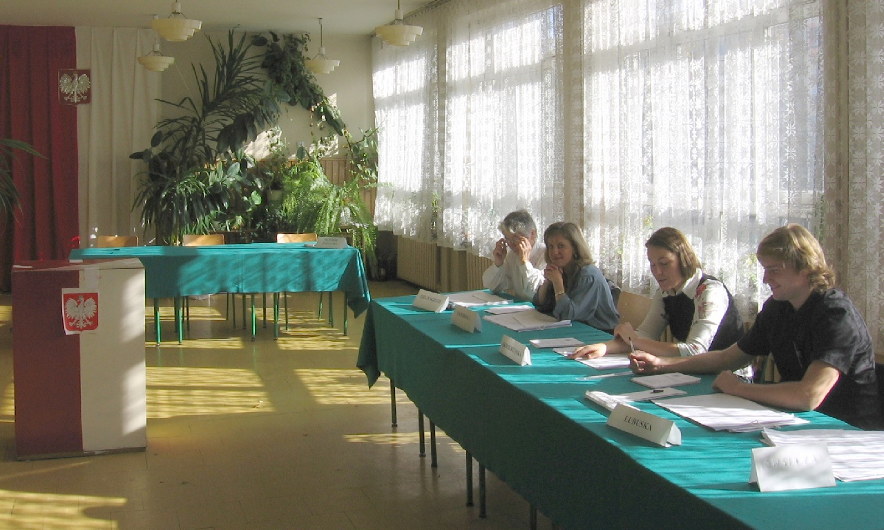 Presidential Election 2005 in Poland (second round of voting, Oct.23rd). Wrocław: inside one of polling stations (all over the country there were 25,000 polling stations for more than 30 million Poles being in the right to vote)